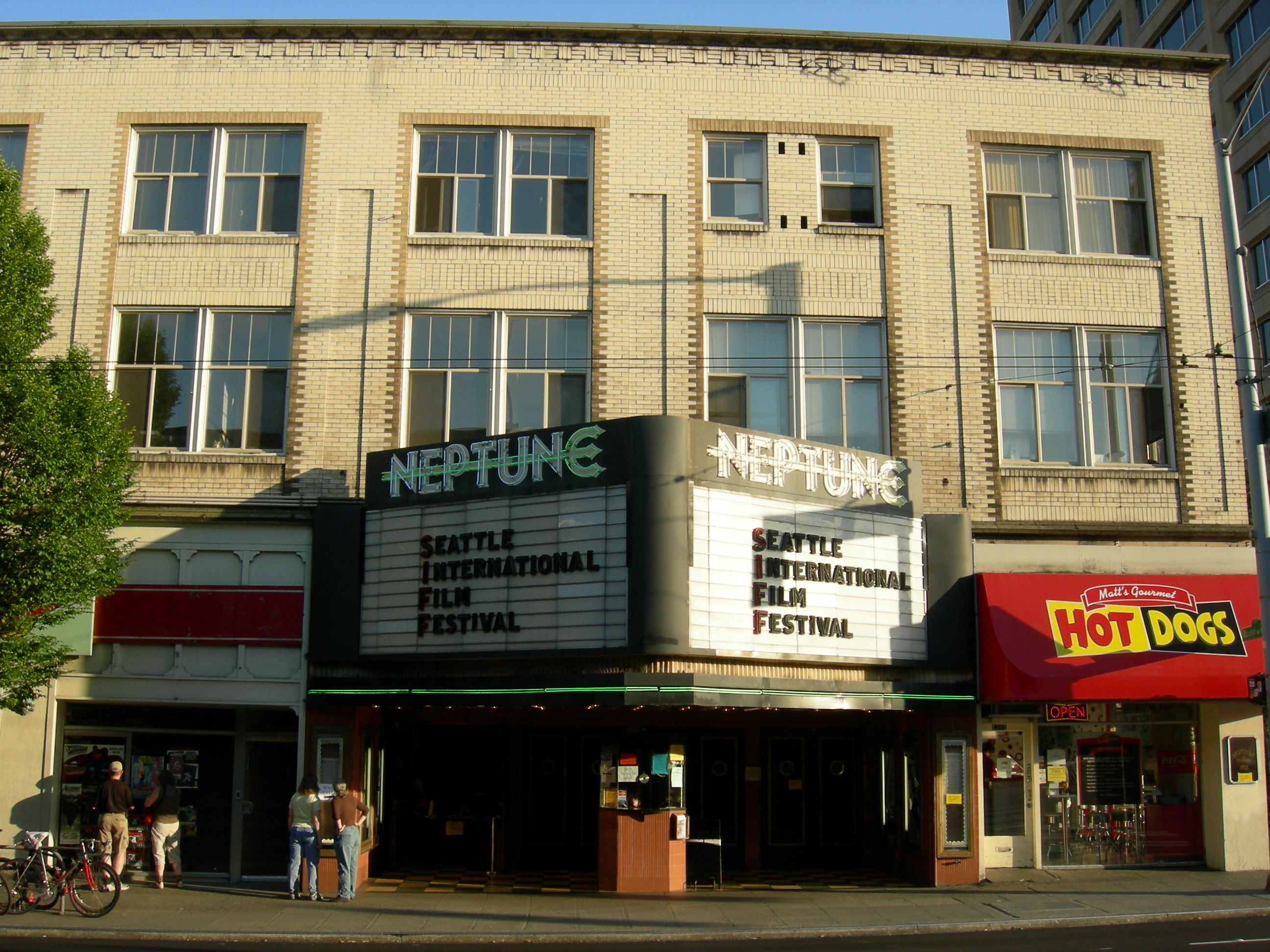 Neptune Theater, University District, Seattle, Washington during the 2007 Seattle International Film Festival, as indicated on the marquee.